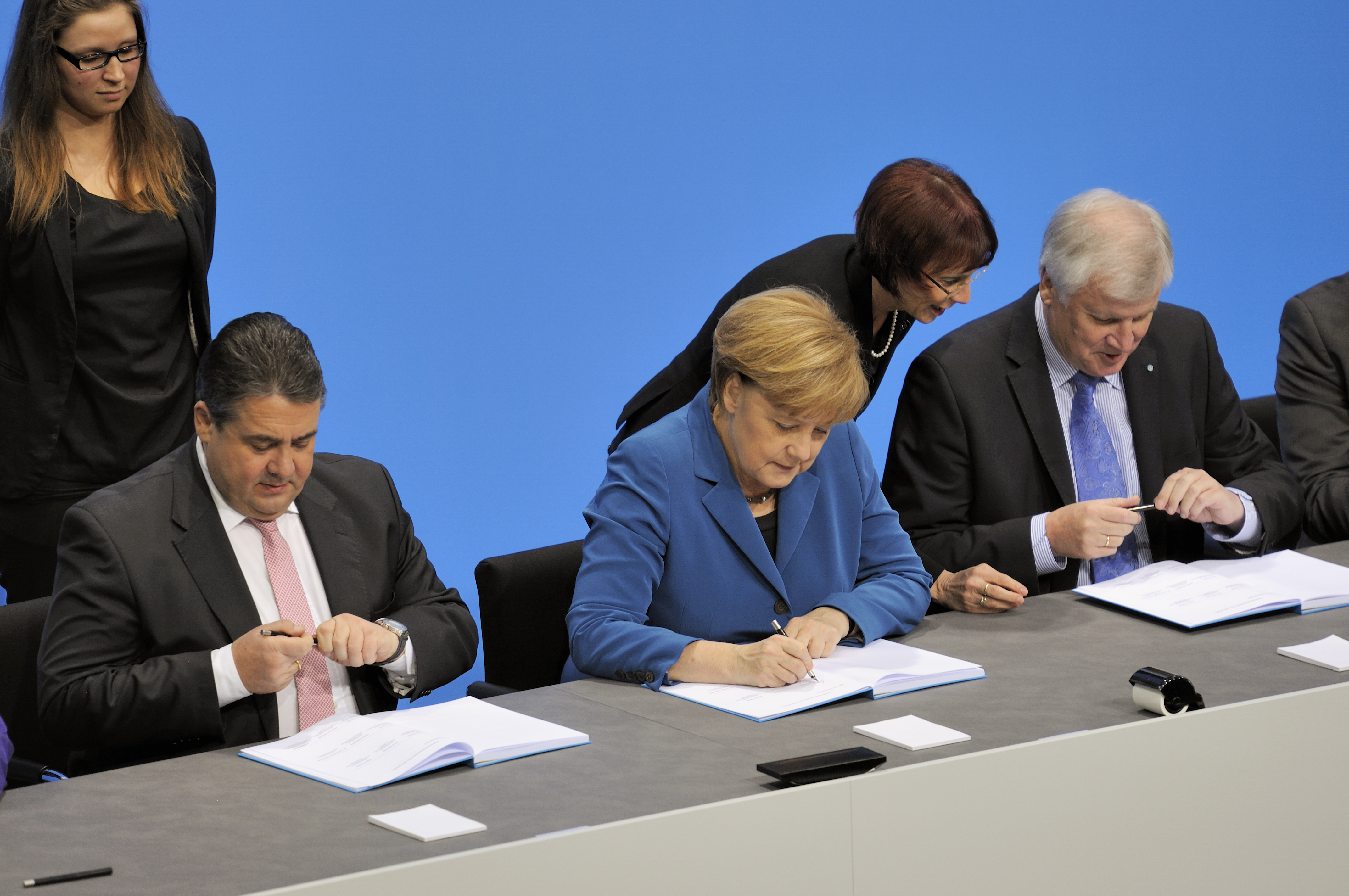 Signing of the coalition agreement for the 18th election period of the Bundestag. Sigmar Gabriel, Angela Merkel, Horst Seehofer.